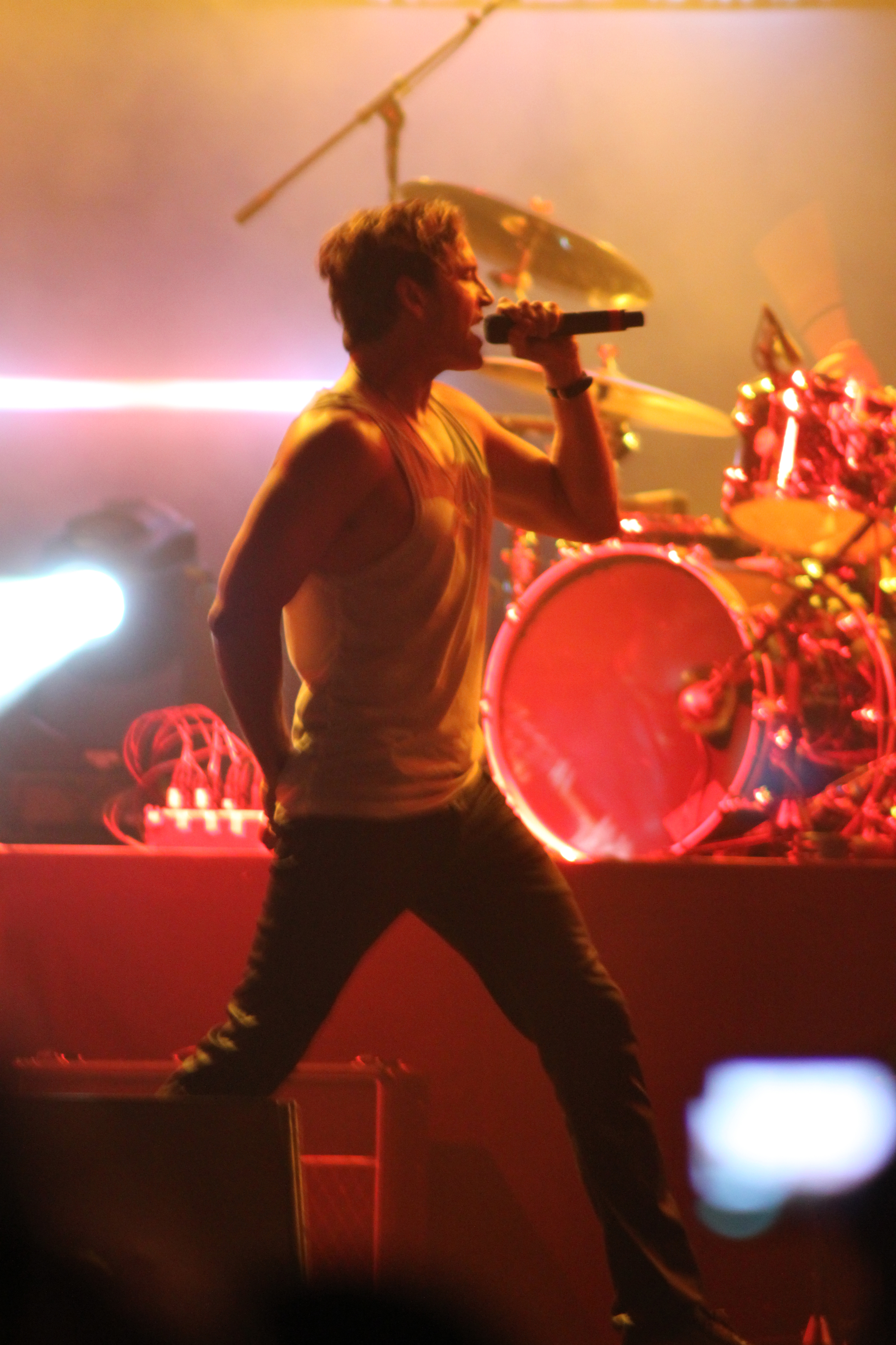 Photo of Third Eye Blind lead singer Stephan Jenkins at Universal Studios Orlando during the Summer Concert series on June 25, 2011.